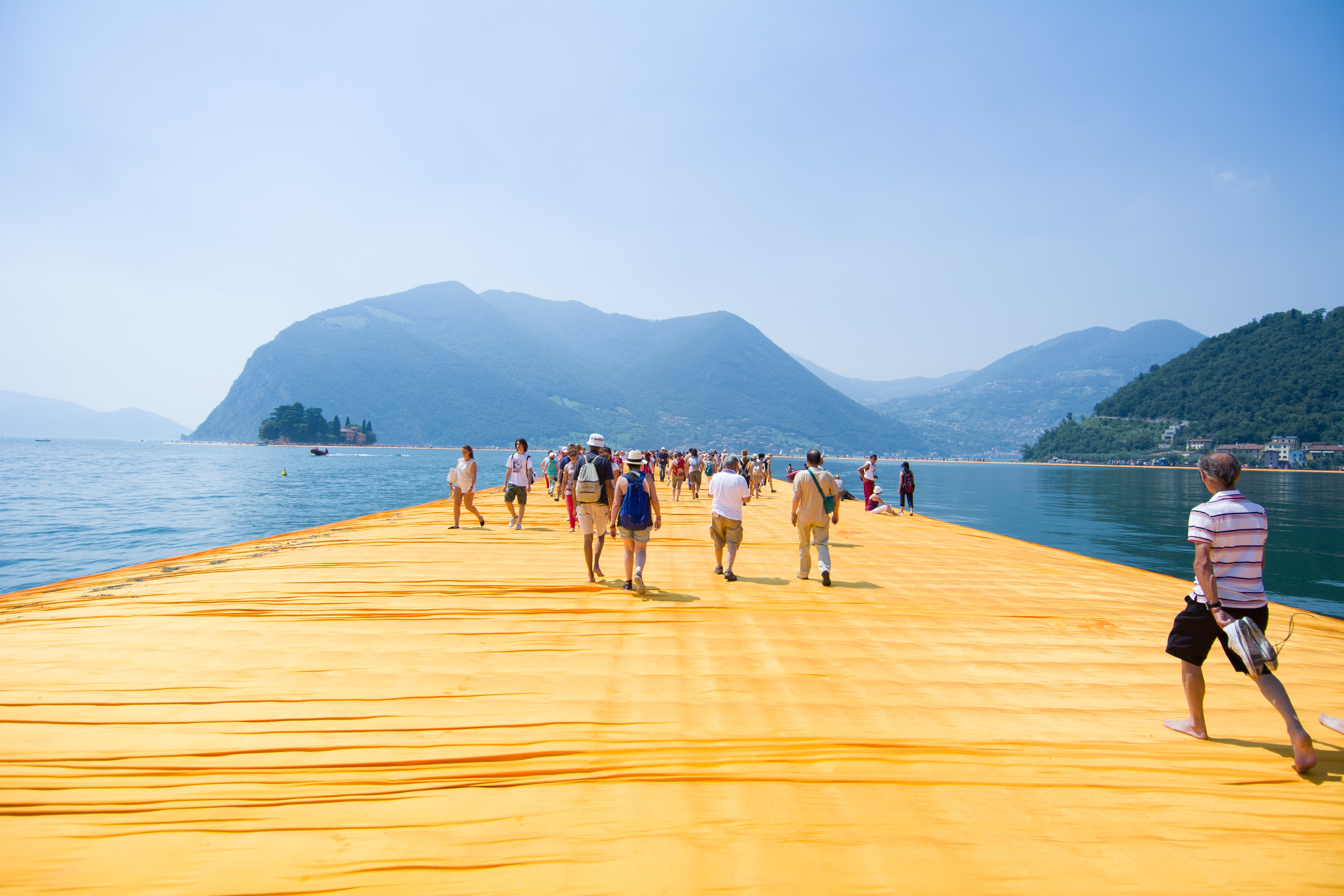 Part of an art installation at Lake Iseo created by Christo and Jeanne Claude.